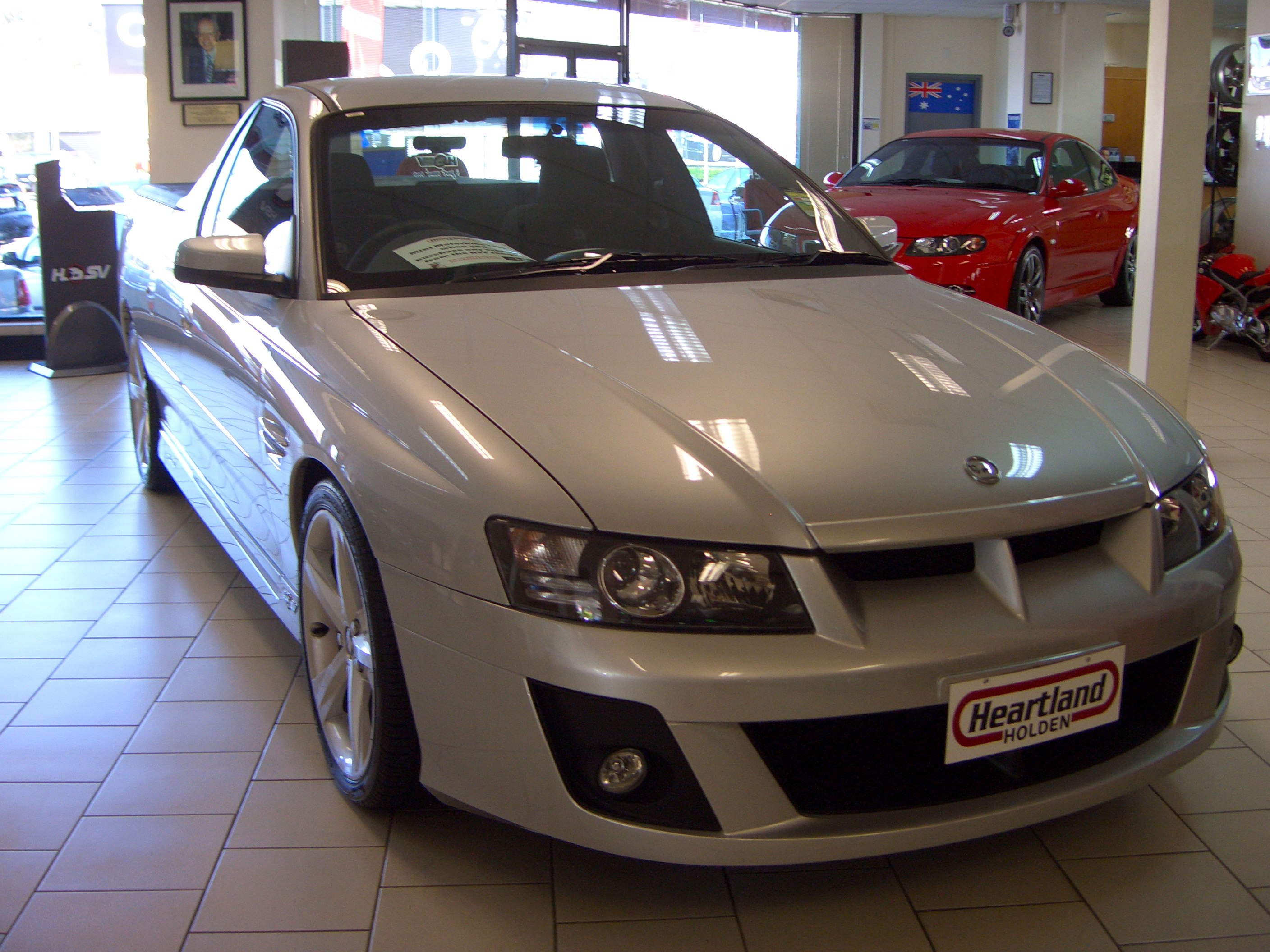 2005 HSV Maloo (Z Series) utility. Photographed at Heartland Holden, Parramatta, New South Wales, Australia.